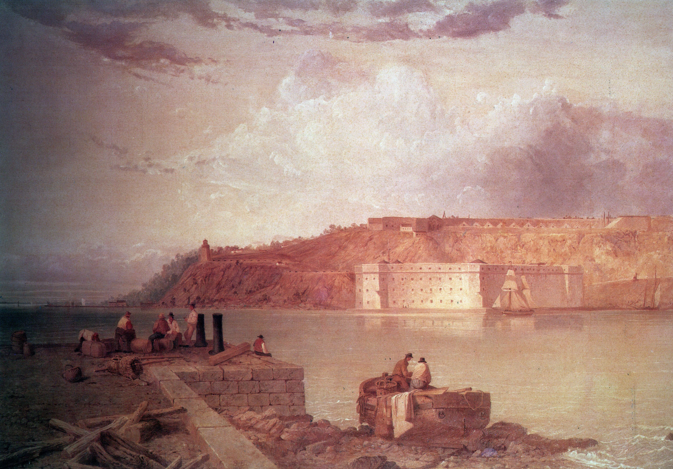 Forts Tompkins and Wadsworth, New York (1870-1875). When Eastman painted this scene, the installation at the top of the hill was known as Fort Tompkins and the fortification at the waterline was Fort Wadsworth. Over the years, however, these fortifications, located on Staten Island west of the Narrows outside New York harbor, have had a variety of names. In 1776 the British occupied and fortified the island along the waterline. When their occupation ended in 1783 the fortifications became known as Fort Richmond, the name of the local New York county. In 1812 Staten Island, by the U.S. property, received additional fortifications. The new post built on the height was named Fort Tompkins, after Governor Daniel D. Tompkins of New York. At the end of the Civil War in 1865, the War Department issued General Orders No. 161 redesignating Fort Richmond as Fort Wadsworth "in memory of the gallant and patriotic services of Brigadier General James S. Wadsworth who was killed at the head of his command in the battle of The Wilderness." In 1902 Headquarters of the Army General Orders No. 16 applied the name Fort Wadsworth to all the fortifications on the west side of the Narrows and at the same time gave names to each of the individual batteries on the island. The fortifications that had been named Fort Wadsworth were designated Battery Weed for Stephen H. Weed, a brigadier general of United States Volunteers during the Civil War.